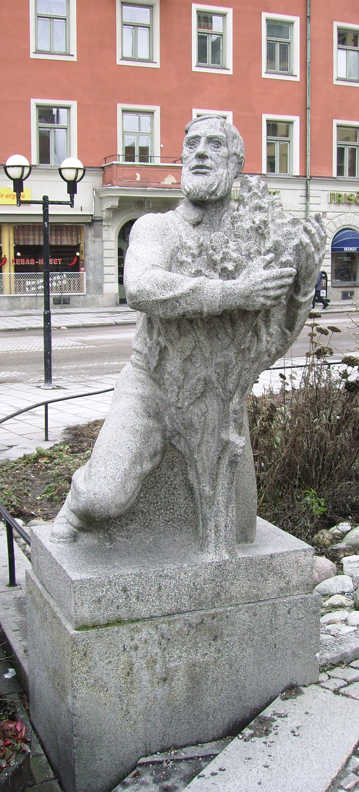 Picture of Arbetets ära och glädje, monument on Fristadstorget in Eskilstuna